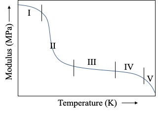 Five stages of polymer modulus vary with temperature.